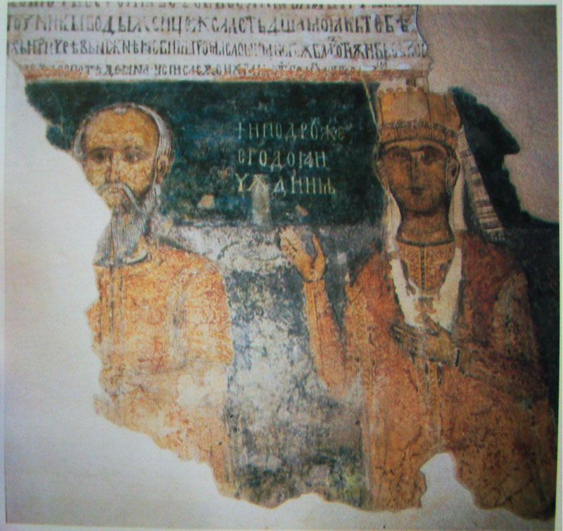 Despot Dejan and his wife. 14th-century fresco from the Belovo Monastery near Zemen (also called Zemen Monastery).